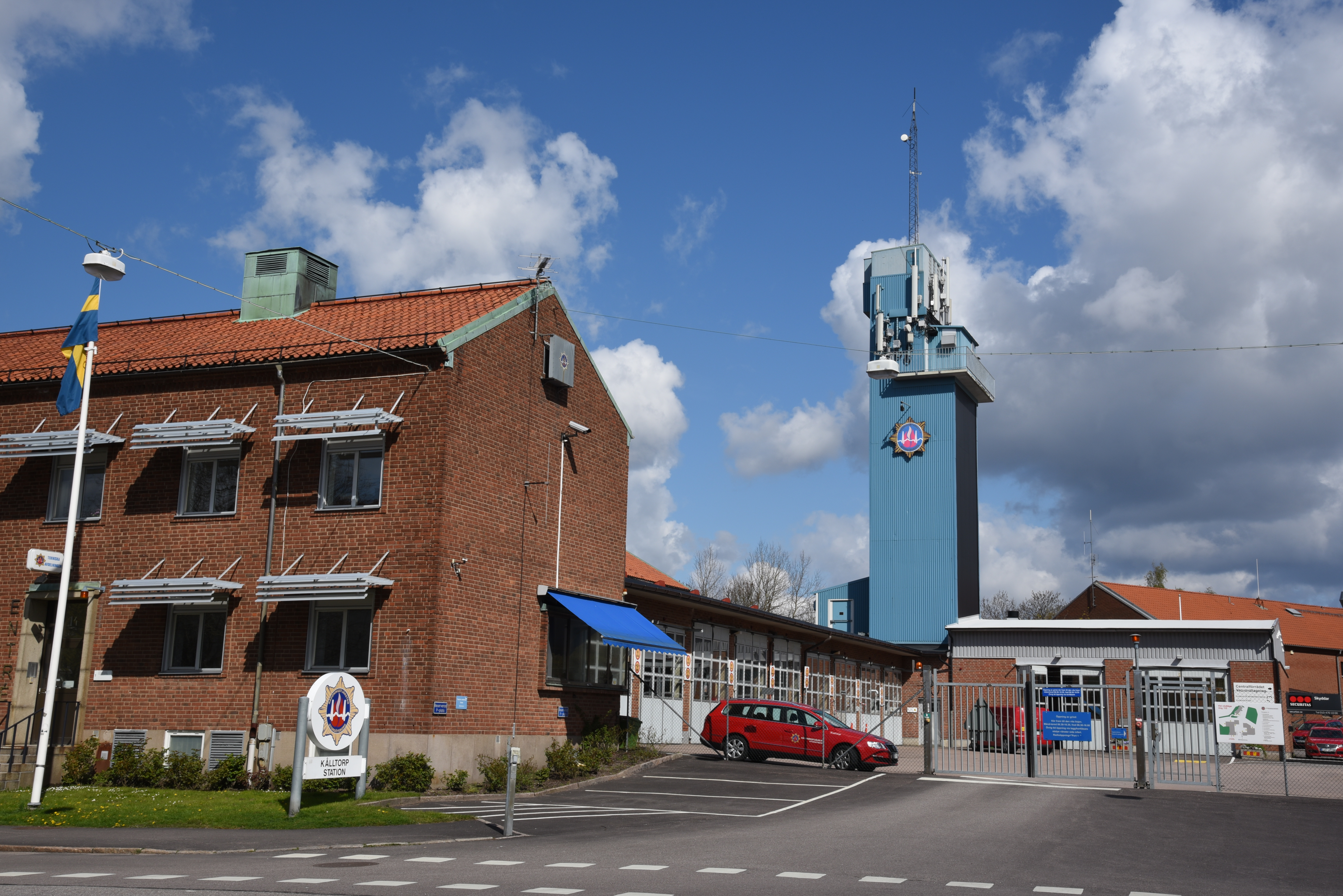 Kålltorp fire station in Göteborg.